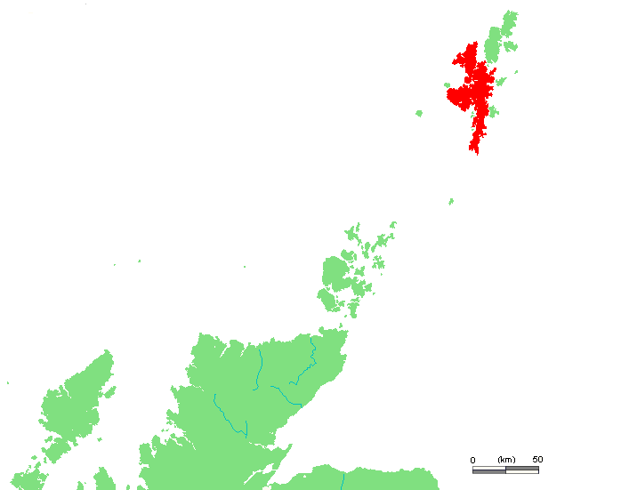 VK Shetland Mainland.PNG (Orkney and Shetland islands, UK)